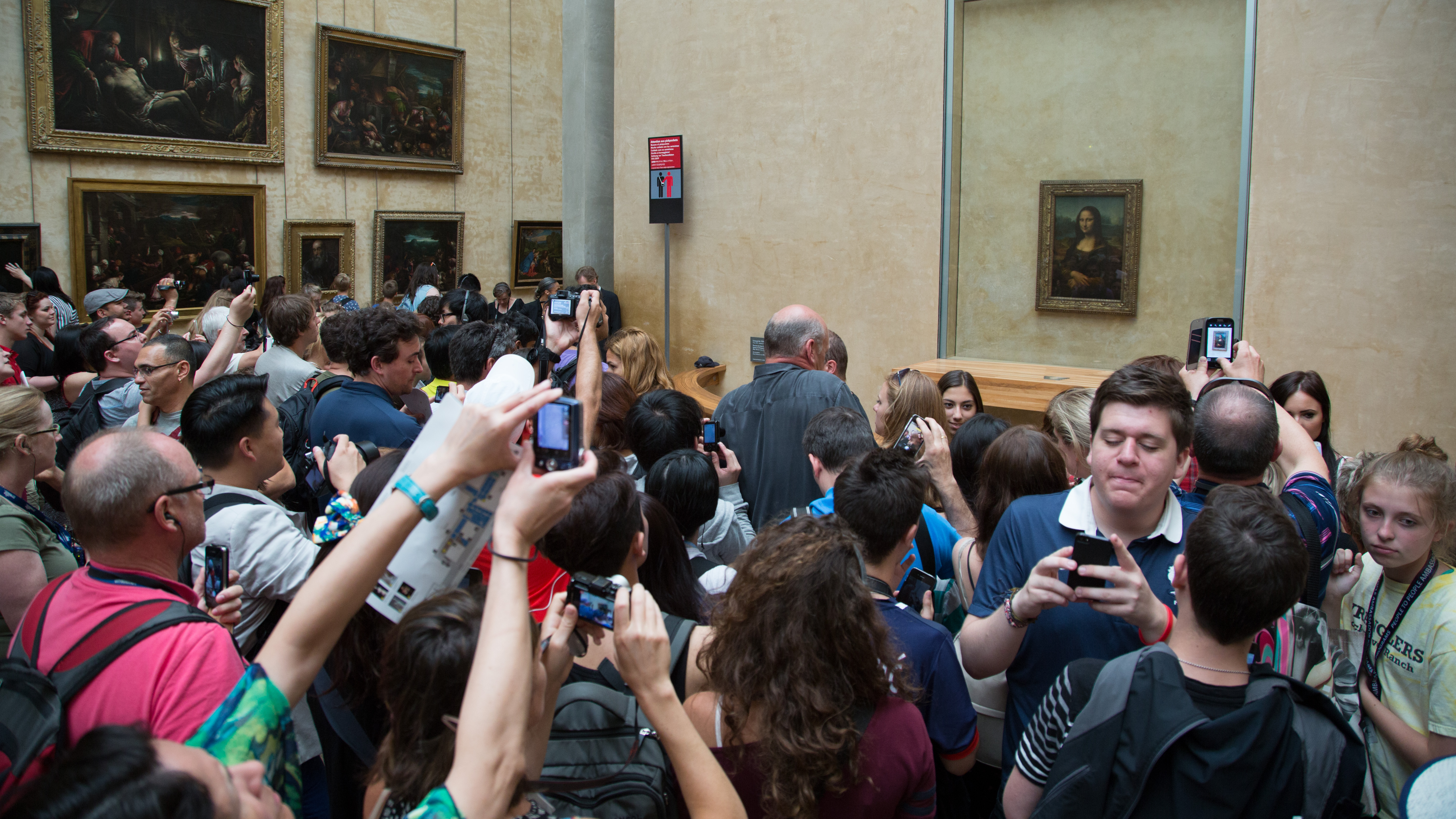 Crowd taking pictures of the Mona Lisa at the Louvre